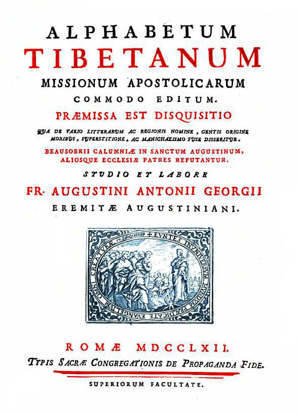 Cover of Alphabetum Tibetanum Missionum Apostolicarum Commodo Editum (1762)